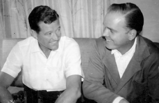 Photograph of Jack Melick (right) with entertainer Dennis Morgan at the Reno Mapes Hotel in 1960. Other information I am publishing a new biographical Wiki article on the subject in the picture, John T. Melick, Jr. He is a fairly well-kown (in his genre) pianist and bandleader. He is one of two remaining Big Band leaders left alive. The other, Ray Anthony, is inactive. This picture is a cropped version of a photo that was taken of him and Dennis Morgan in 1960 by an unknown friend. It has been in his scrapbook for almost 60 years. He provided it for use here.